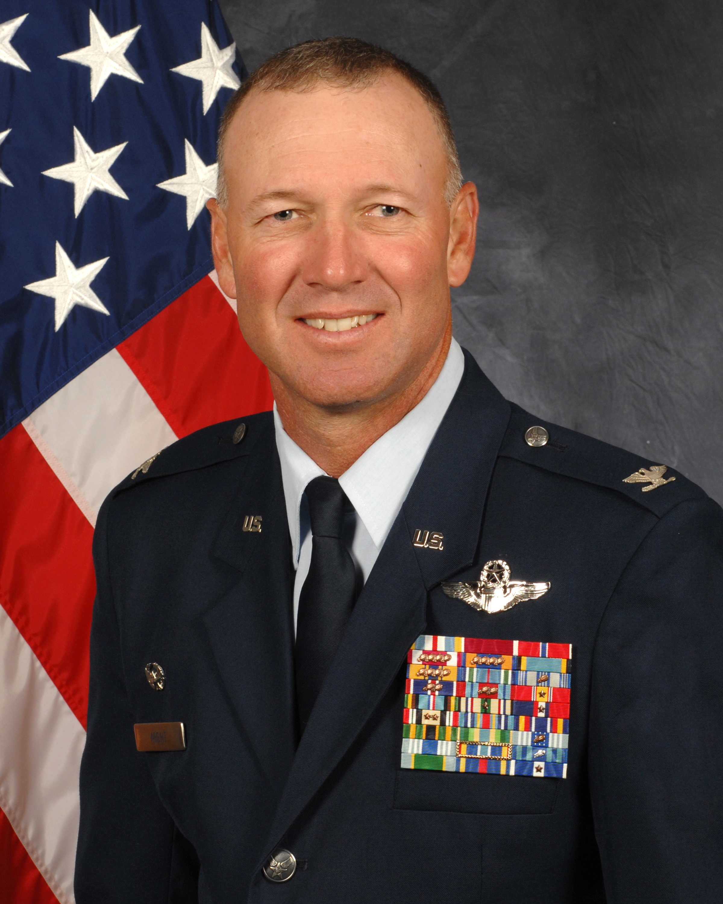 Colonel Lee T. Wight, Commander 52. Fighter Wing, Spangdahlem Air Base, Germany